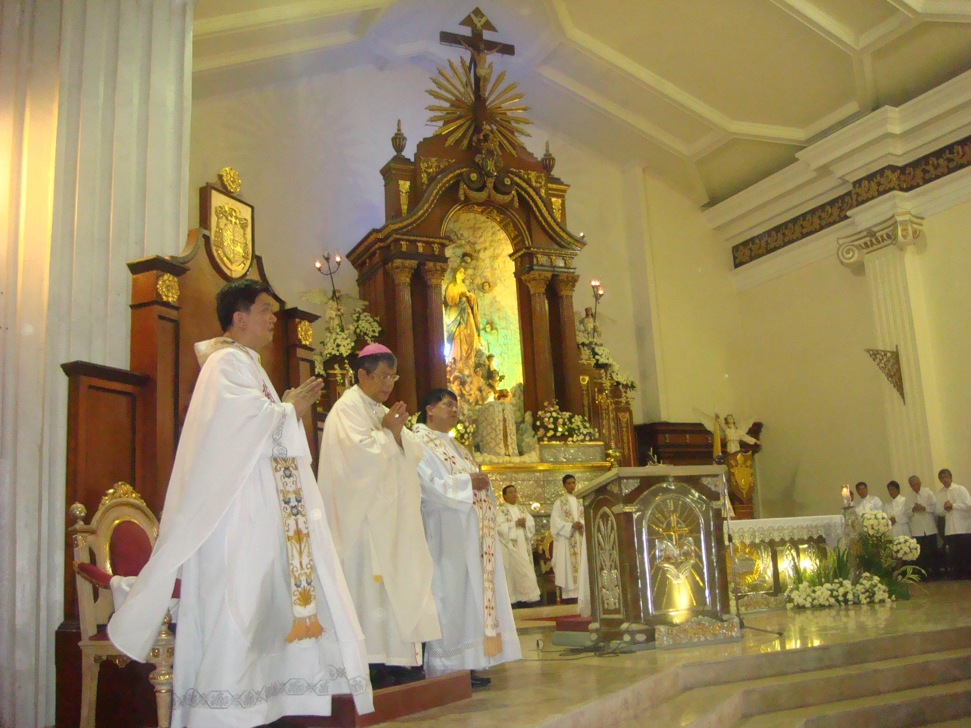 High Mass at the Basilica Minore de Immaculada Concepcion Malolos City, Bulacan[1]